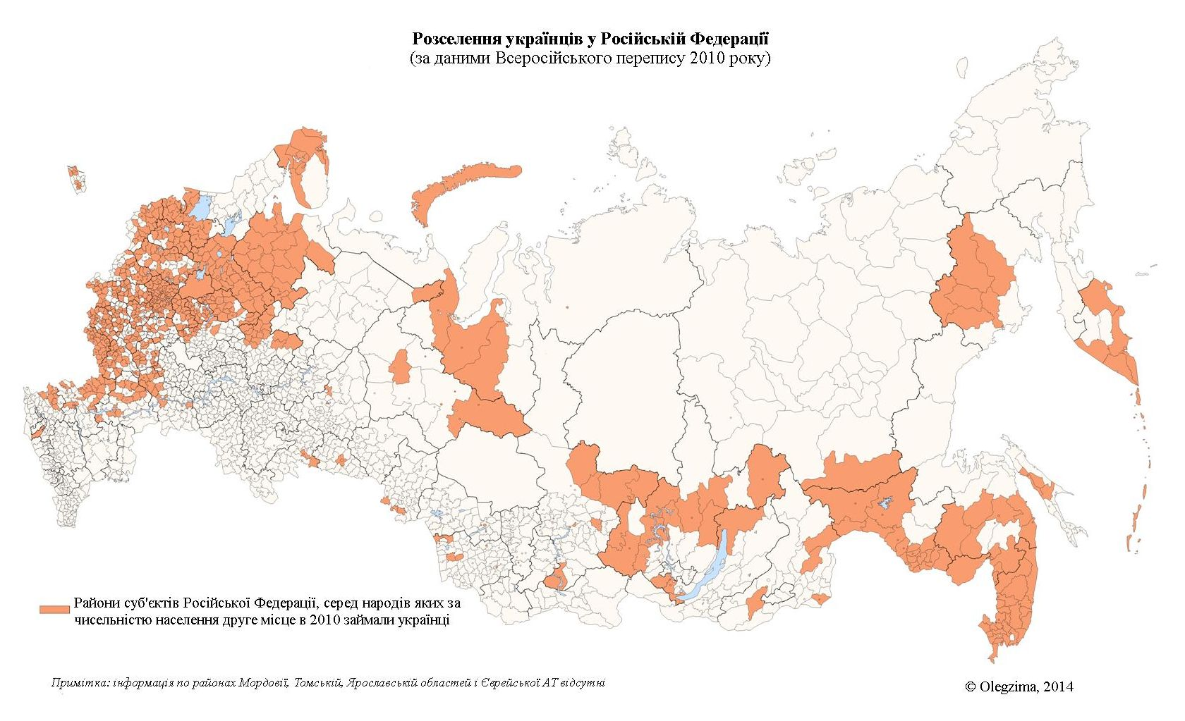 Ukrainian second largest population group in areas of Russia